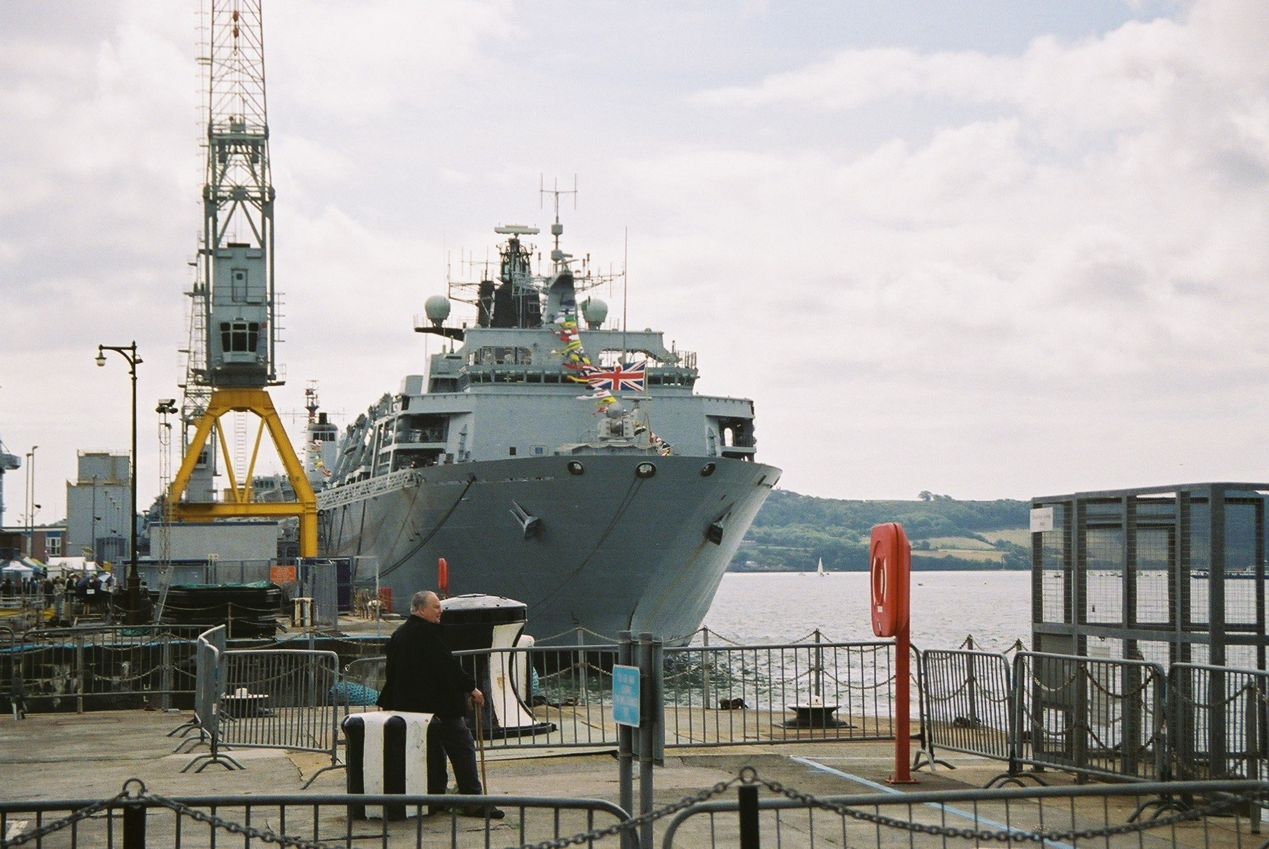 The HMS Albion during the HMNB Devonport Navy days 2006.